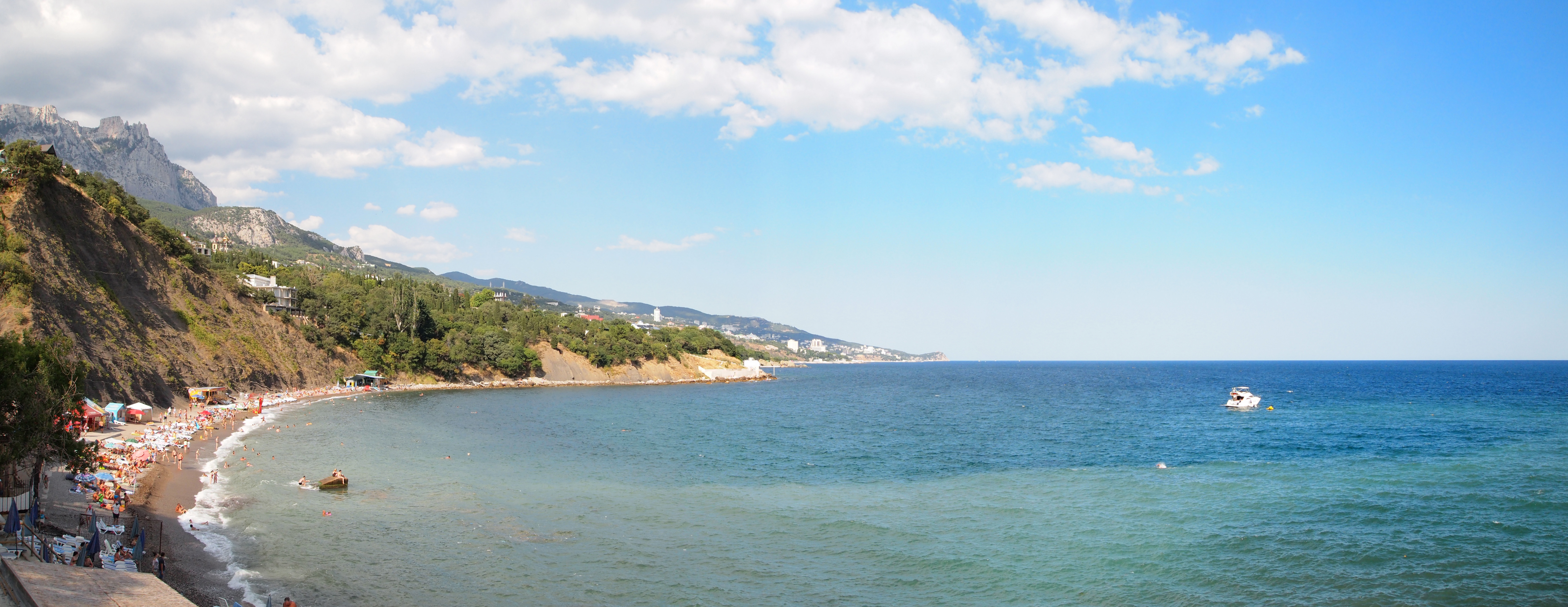 View in Alupka, Crimean peninsula, Ukraine.